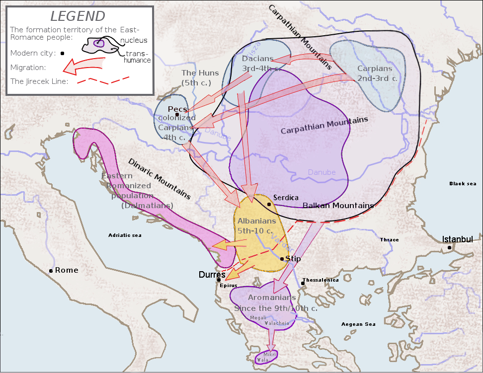 Map of the general areas of the ethnogenesis of the Romanian & Albanian peoples since the linguistic hypothesis of the Daco-Thracian origin of the Albanian language (the other hypothesis supposes an Illyrian origin). Data from: Carlos Quiles, A Grammar of Modern Indo-European, ISBN 8461176391, page 76, fig. 47, and Asterios Koukoudis, The Vlachs : Metropolis and Diaspora, éd. Zitros, Thessaloniki 2003, ISBN: 9789607760869 according with Theophanos Confessor, Georgios Cedrenos and Apokaukos. I slightly fixed the shape of Italy. Image remains in public domain. GhePeU 22:08, 12 February 2006 (UTC)